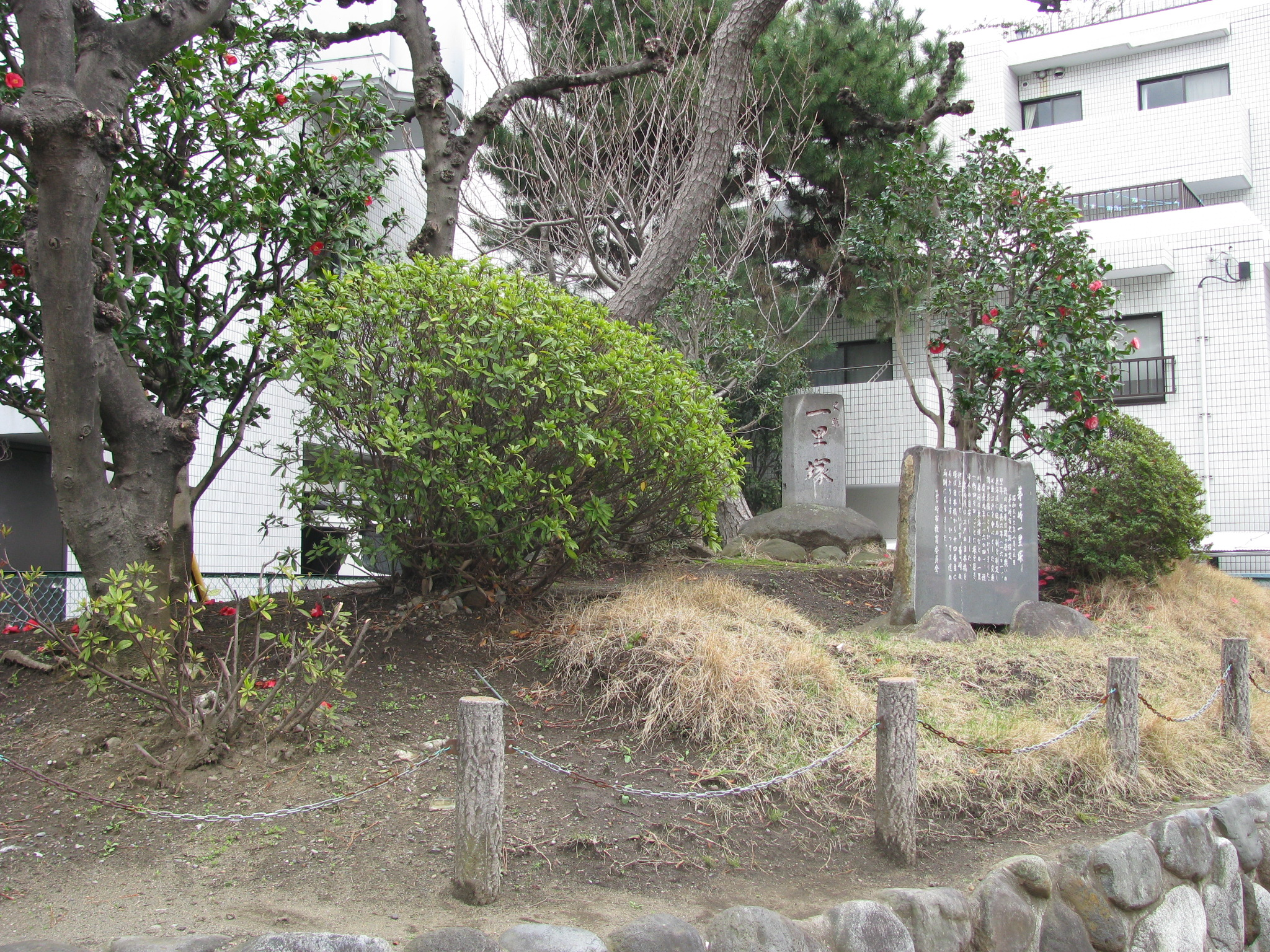 The Chigasaki Ichiriduka is a Mound of old Li markers. This place is in Chigasaki, Kanagawa, Japan.